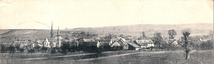 Postcard View Over Welgesheim In 1896.